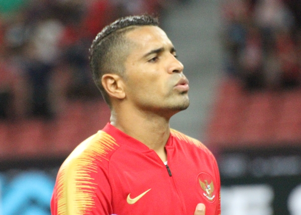 Beto Goncalves